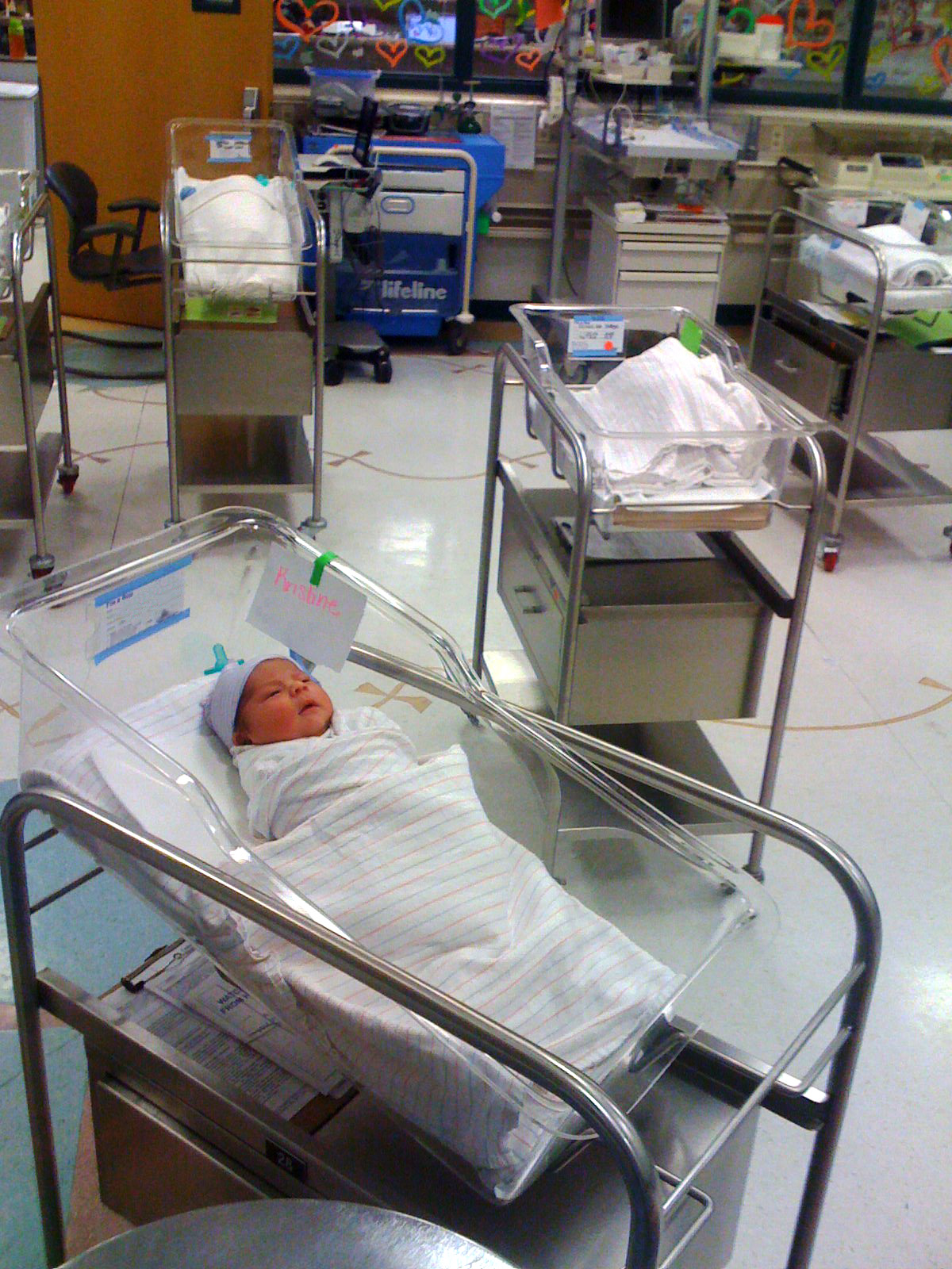 Newborn baby ward. University Hospital. UT Health Science Center, San Antonio.